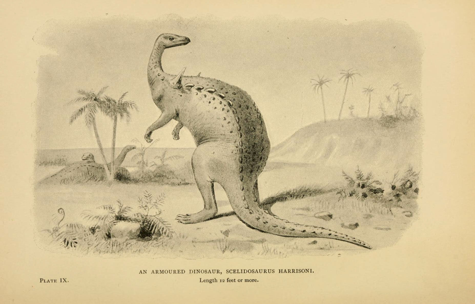 Extinct monsters London :Chapman & Hall,1896.